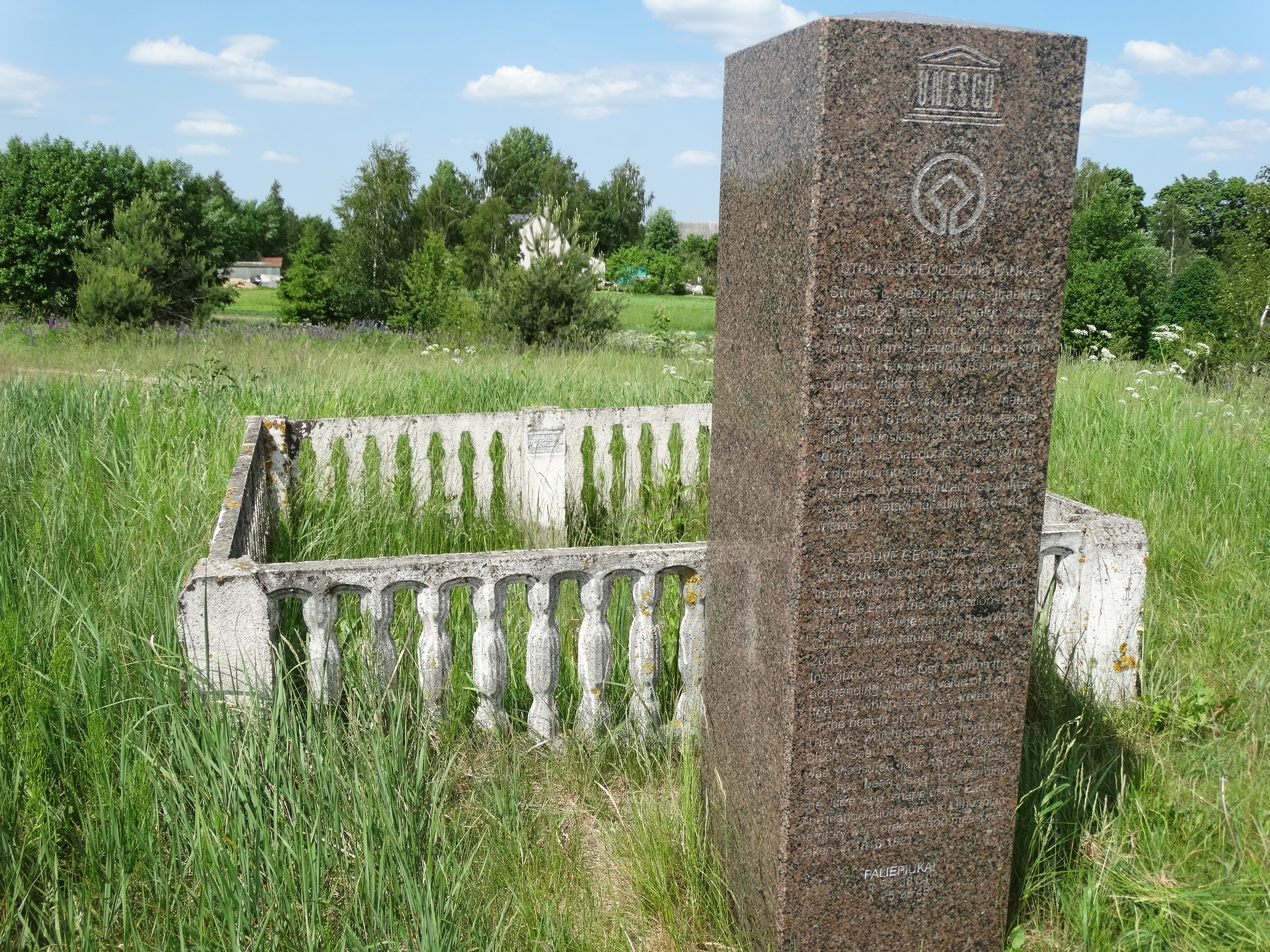 Struvė Arc point, Paliepiukai, Vilnius District, Lithuania